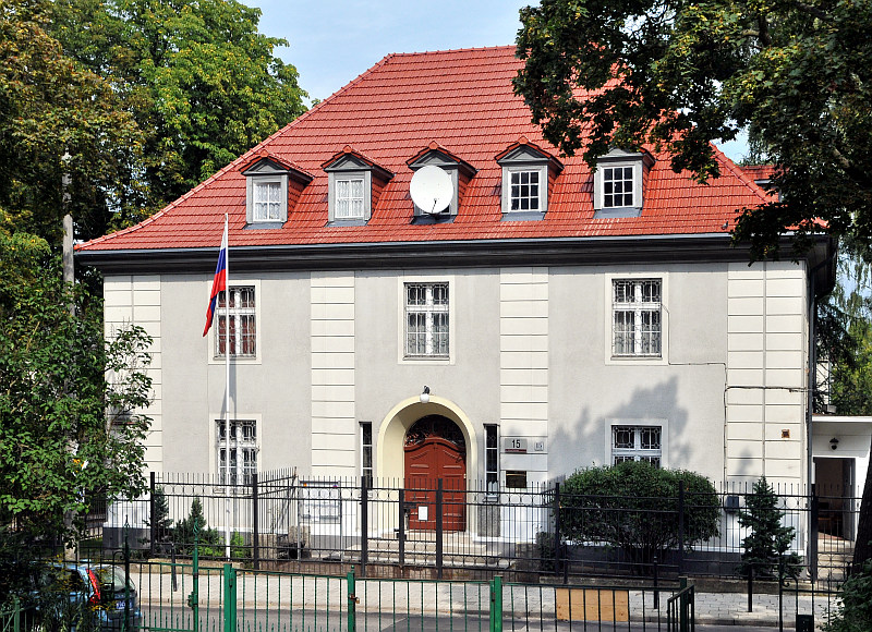 Russian Consulate in Gdansk